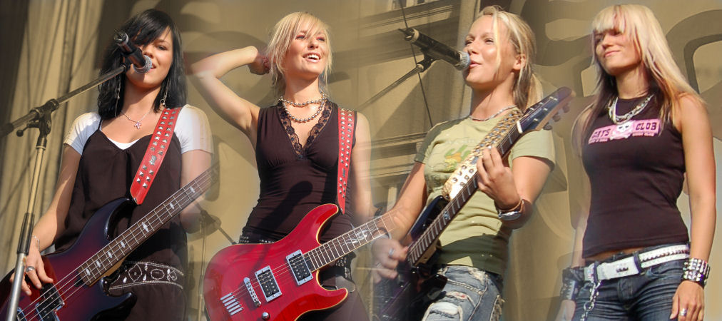 Bandmembers of Vanilla Ninja from a Live performance in Koblenz (August 2005), put together from several pictures. from left to right: Triinu Kivilaan, Piret Järvis, Lenna Kuurmaa, Katrin Siska